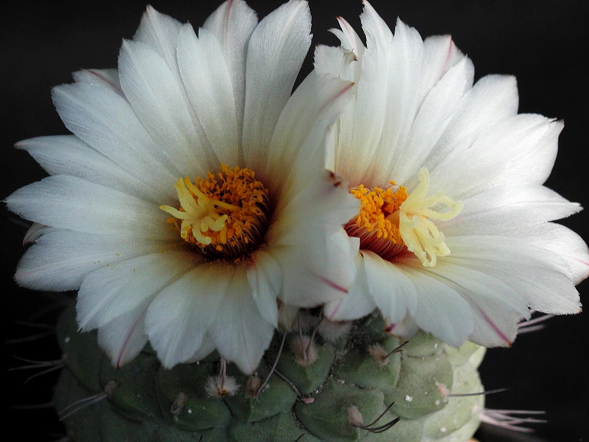 Image title: White cactus bloomig Image from Public domain images website